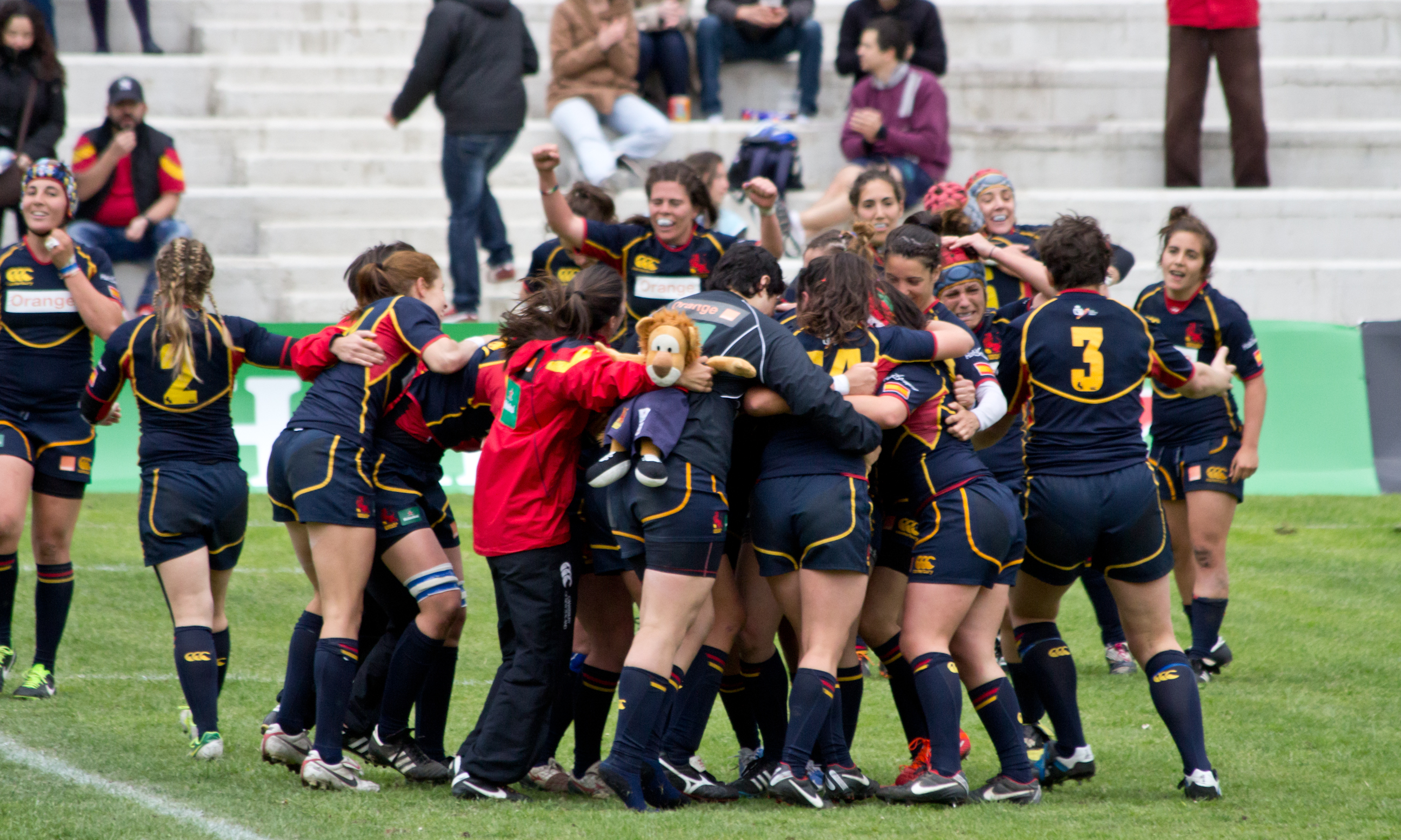 Spain national rugby union team during the 2013 Women's European Qualification Tournament for WRWC France 2014.